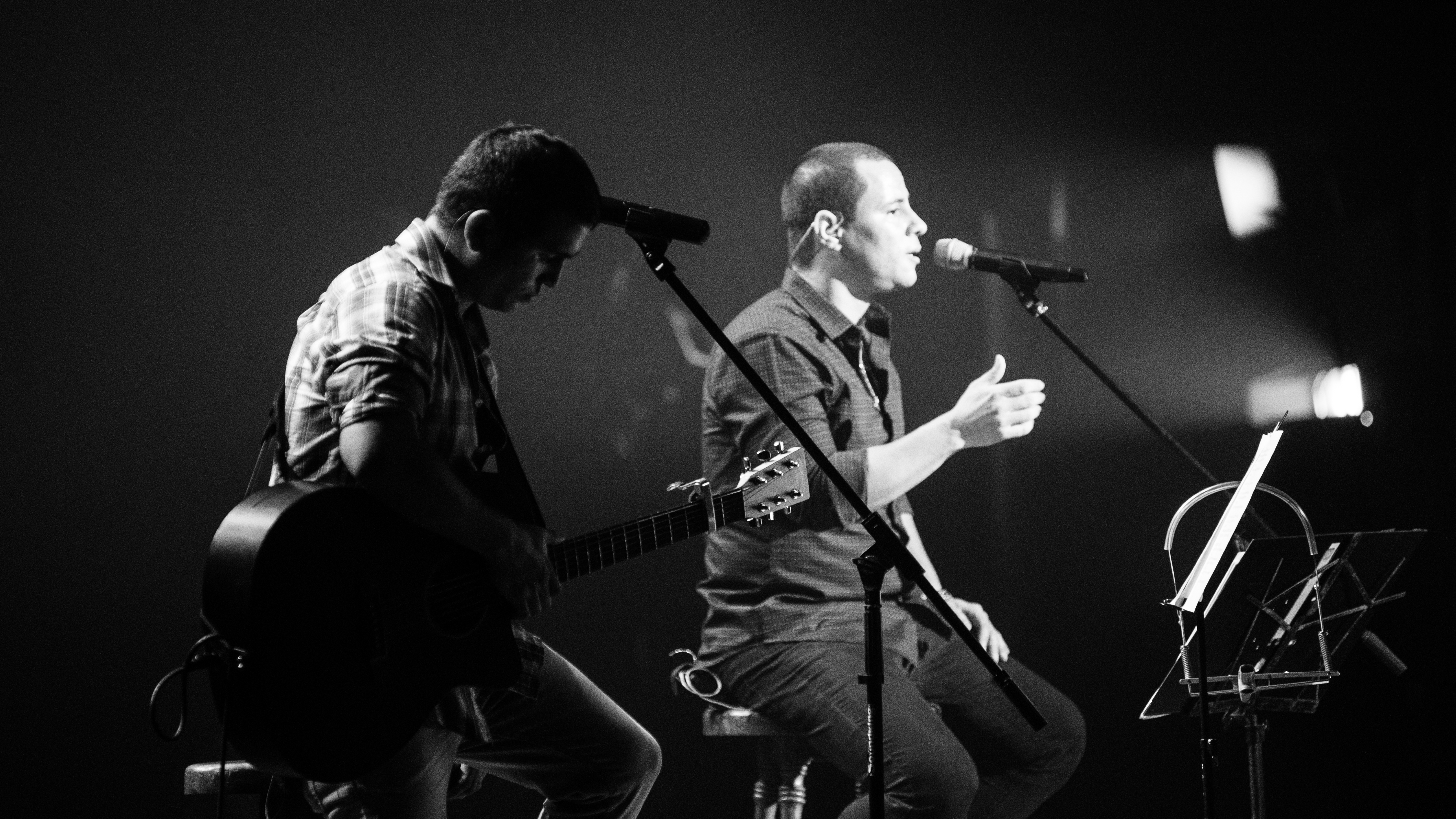 Buena Fe